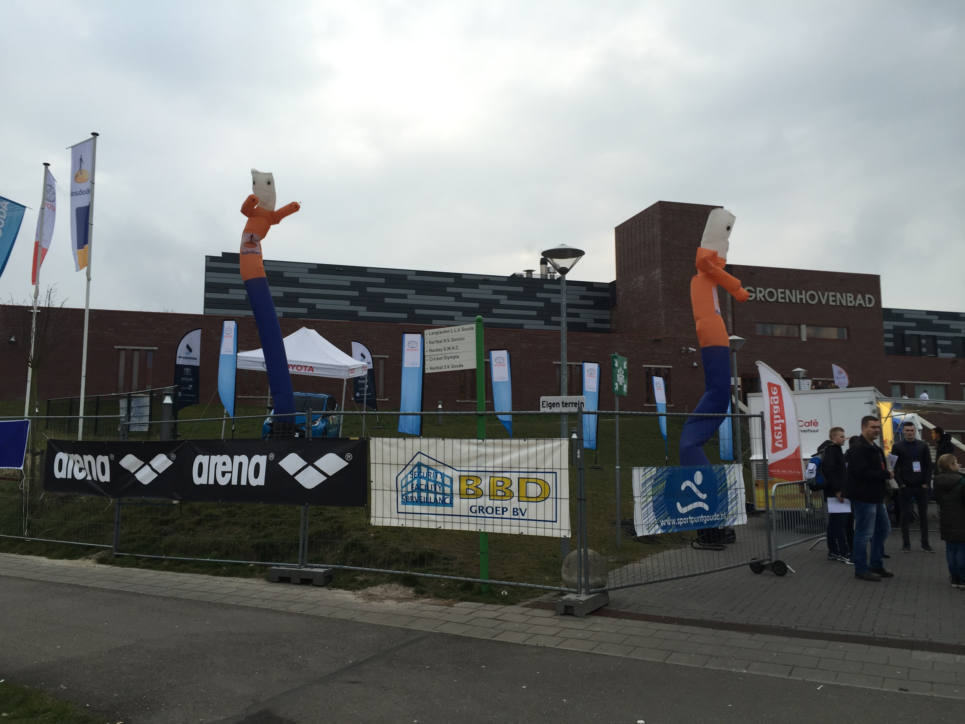 2016 Water Polo Olympic Qialification tournament